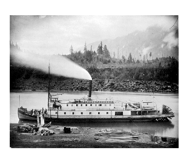 Photo taken 188? Photograper Maynard BC Archives #A-00153 [1]